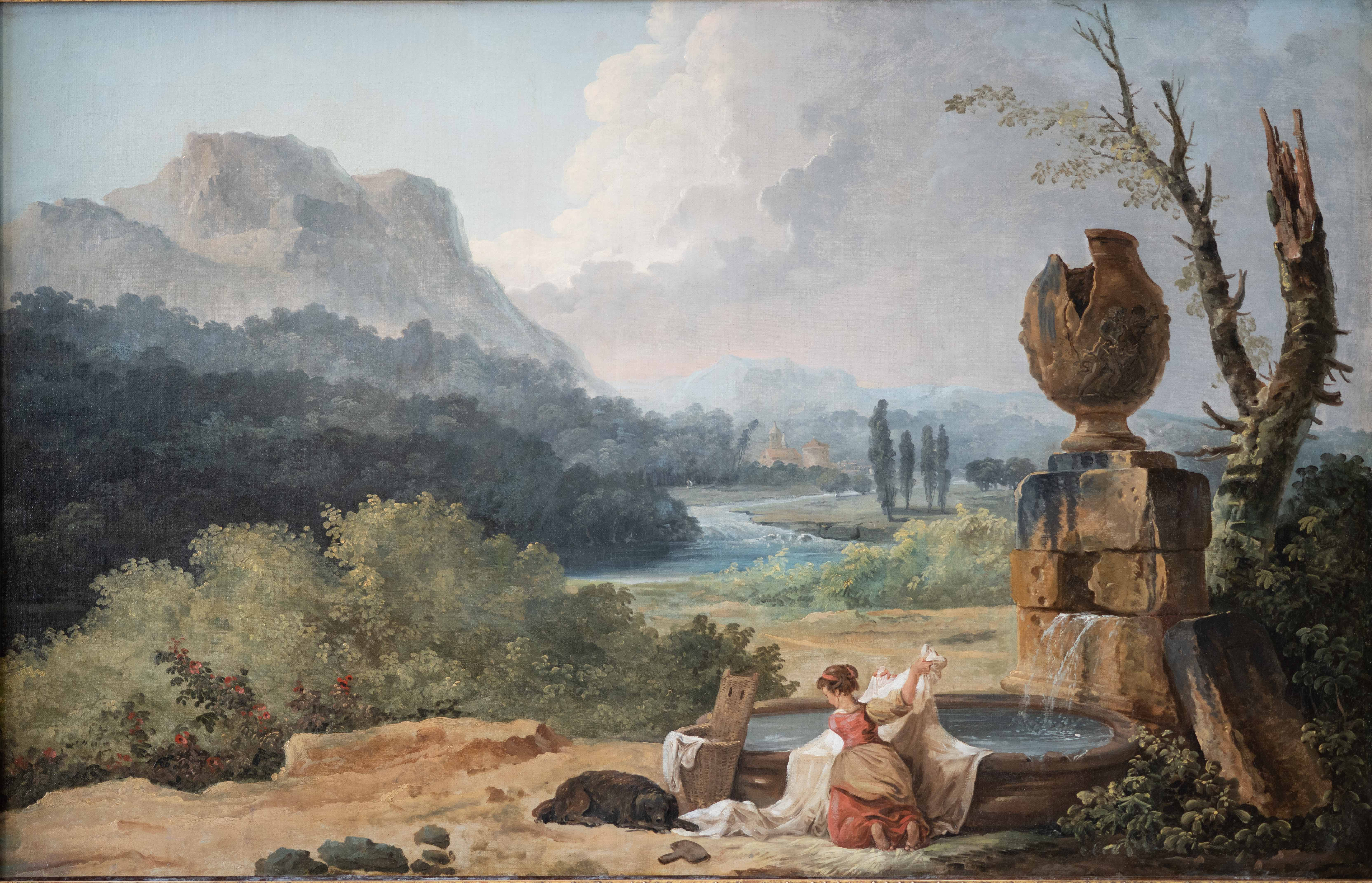 Work by French artist Hubert Robert, Sothebys sale, June 2020